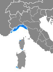 Ligur language